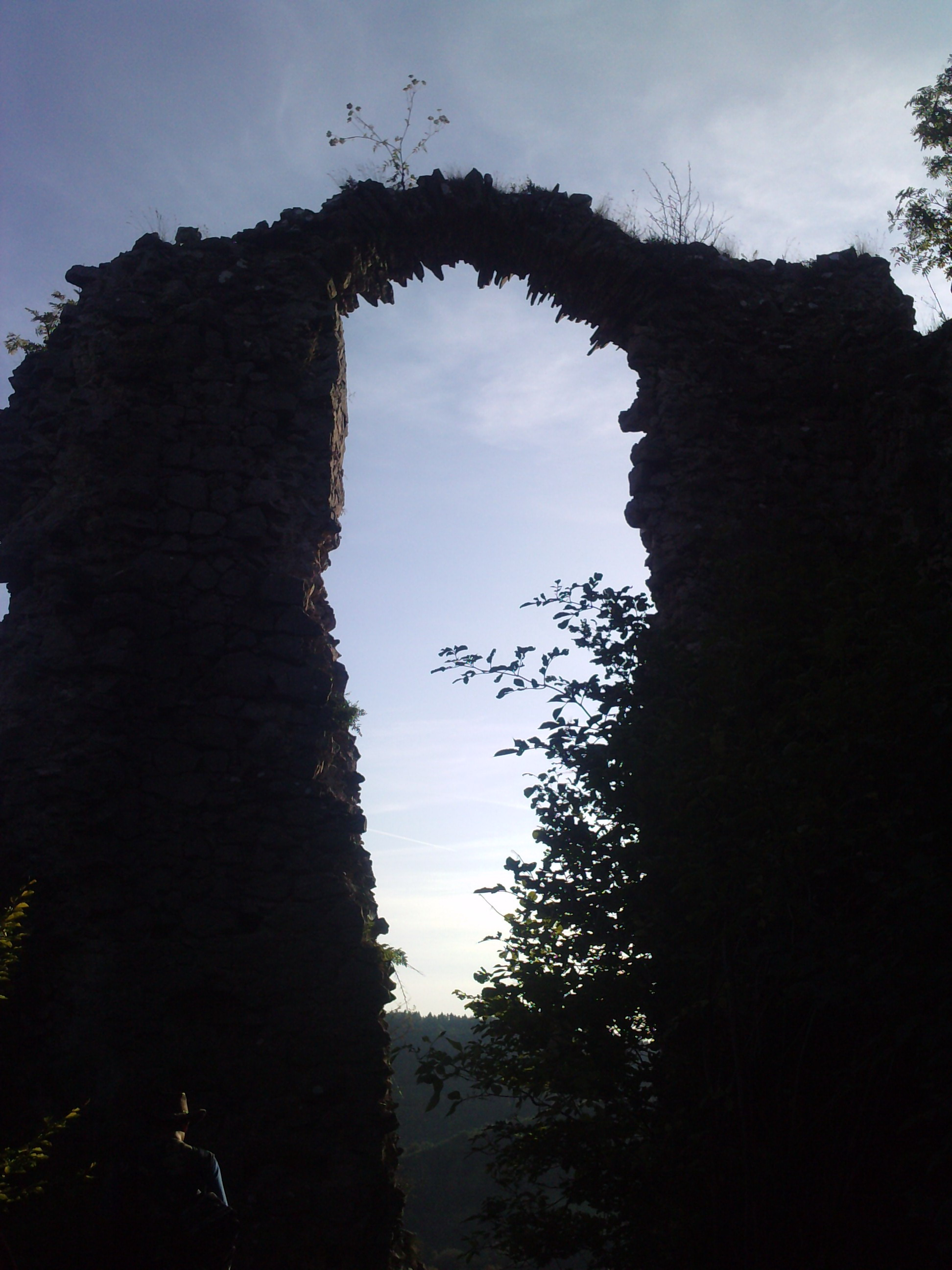 Hanigovce_castle